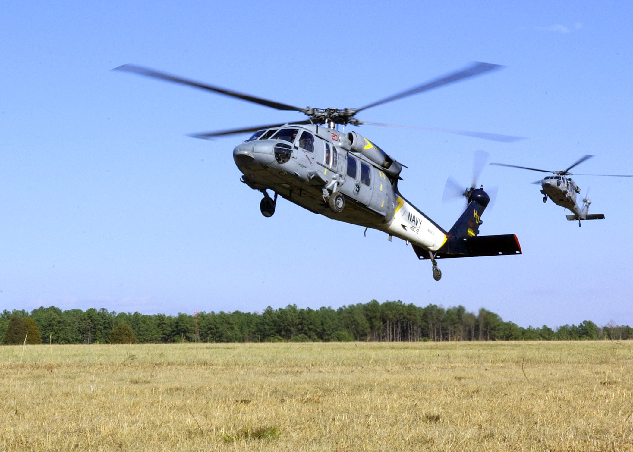 Fort Pickett, Va. (Jan 24, 2007) - Two MH-60S Seahawk helicopters assigned to the "Fleet Angels" of Helicopter Sea Combat Squadron Two (HSC-2) perform formation landings as part of a formation familiarization training exercise. HSC-2, homeported at Naval Station Norfolk, conducts several training flights as part of a training program for new pilots and enlisted crewmen who need to have specific qualifications in order to conduct missions with the MH-60S. U.S. Navy photo by Mass Communication Specialist 1st Class Steven Harbour (RELEASED)